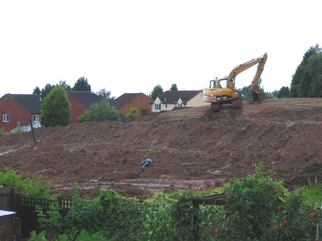 Marlbrook Landfill Site - Remediation in progress. After countless lorry loads of soil were delivered to the site the bulldozers got to work to complete the profiling. The area in the south west corner bounded by Middle House Drive and Ashgrove close was planned to be a wildlife area. There was even talk of putting sheep on the site to act as "lawnmowers". They finally arrived on 15 January 2009. Later picture from similar position shows the finished scene.